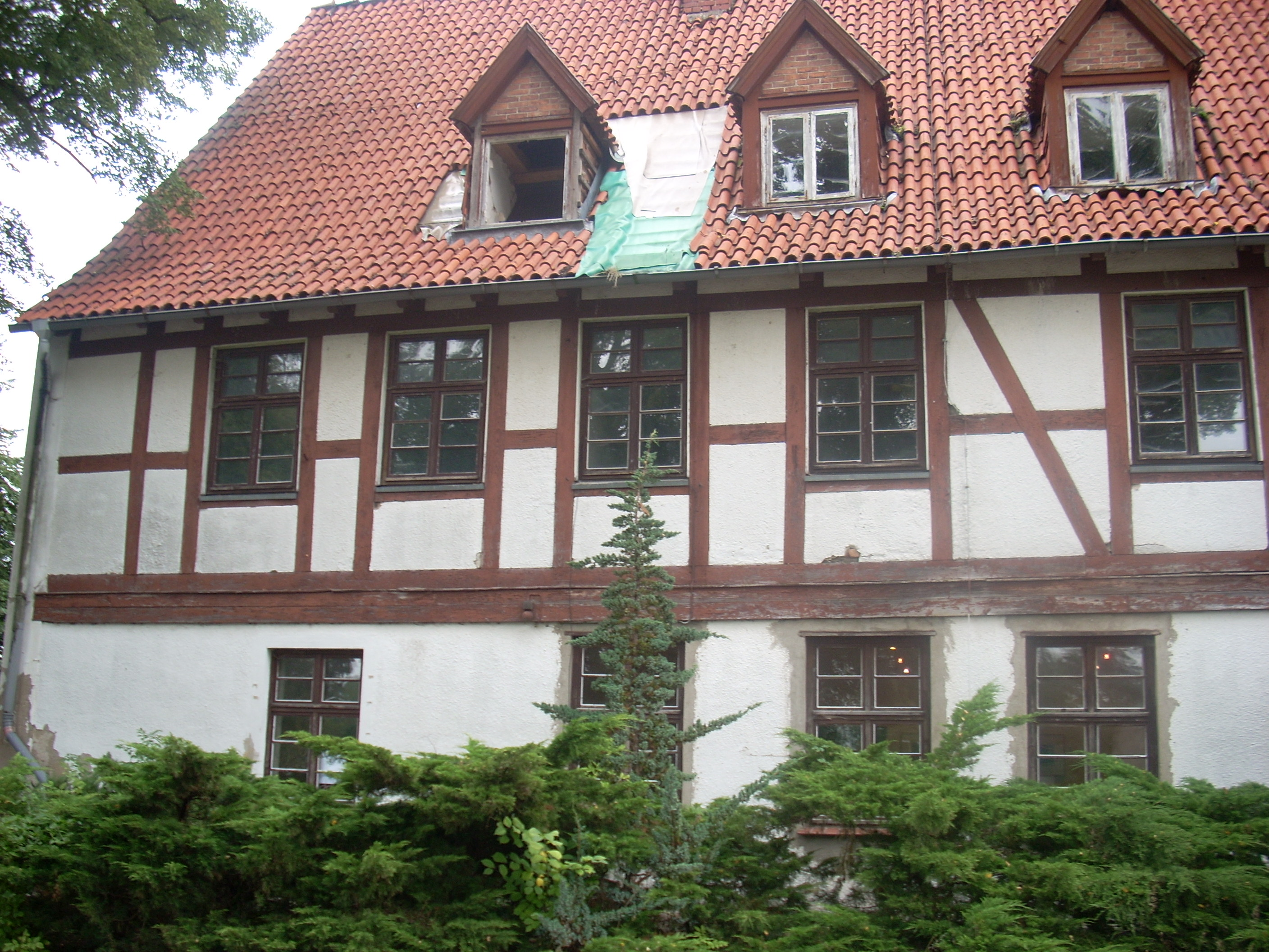 The south building from the Monastery Rühn